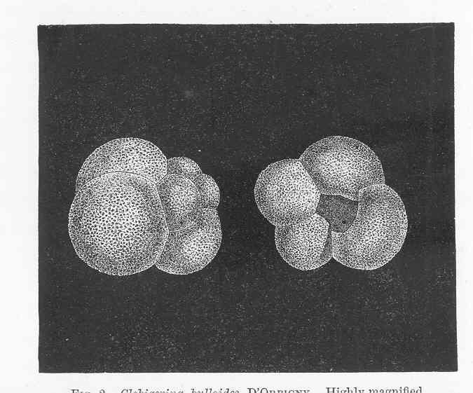 Globigerina bulloides, d'Orbigny Subject: Globigerina, Foraminifera Tag: Invertebrates